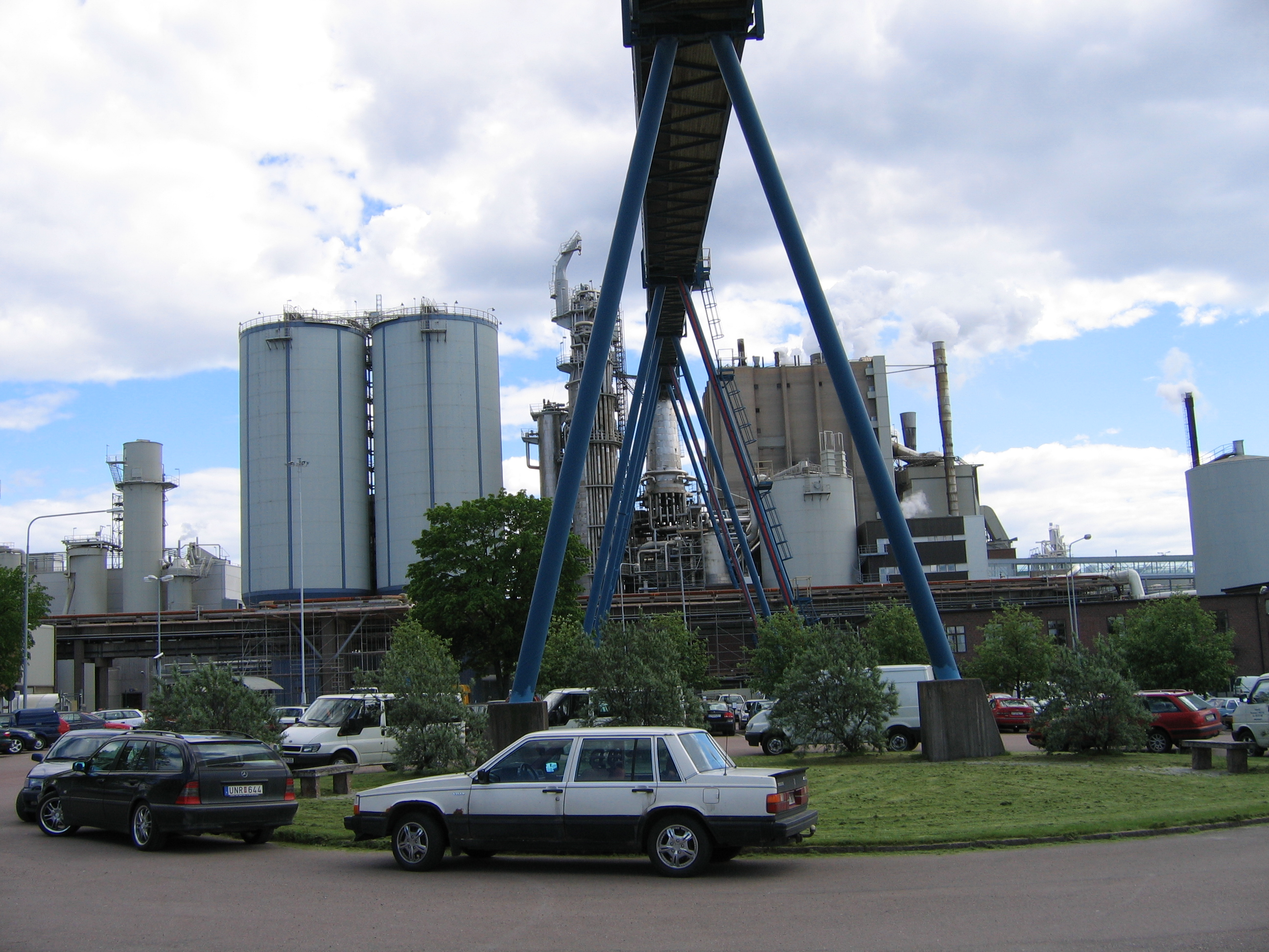 The pulp and paper mill att Skoghall, Sweden (Stora Enso).